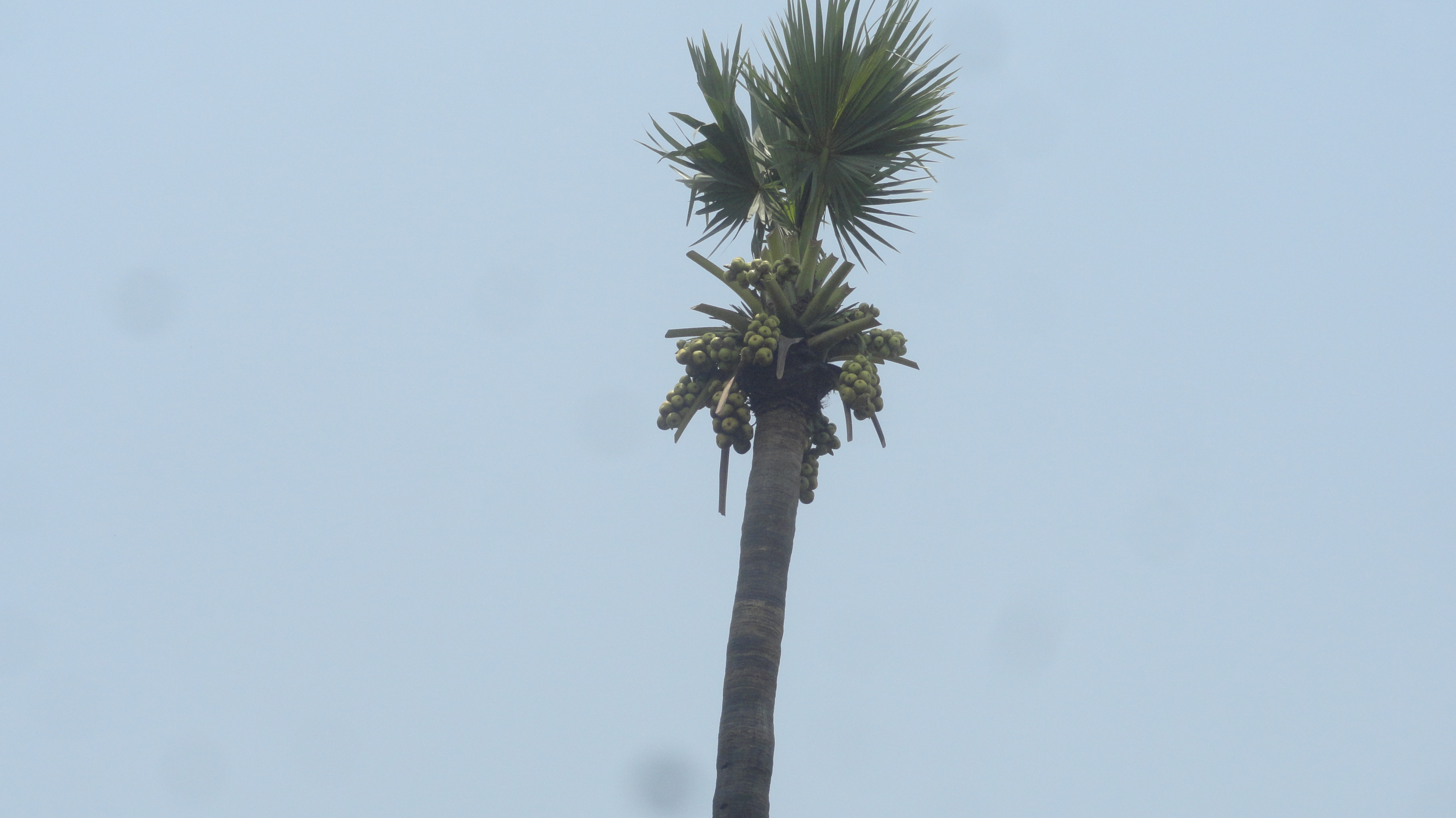 Village panchayat office Potharlanka, of Guntur dist.